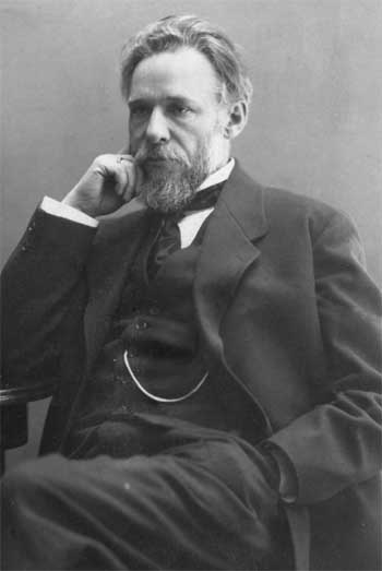 Nikolai Kishkin, (1864— 1930)? Russian politician, member of constitutional-democratic party, minister of the Russian Provisional Government